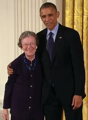 Edith M. Flanigen receives the National Medal of Technology from U.S. President Barack Obama on Nov. 20, 2014. Citation: "For innovations in the fields of silicate chemistry, the chemistry of zeolites, and molecular sieve materials."